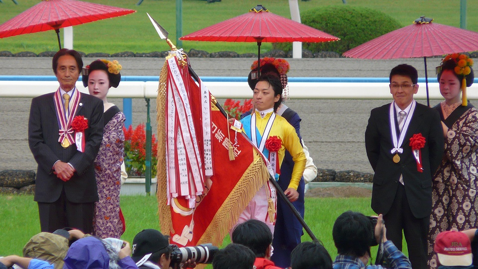 Yuga-Kawada20101024